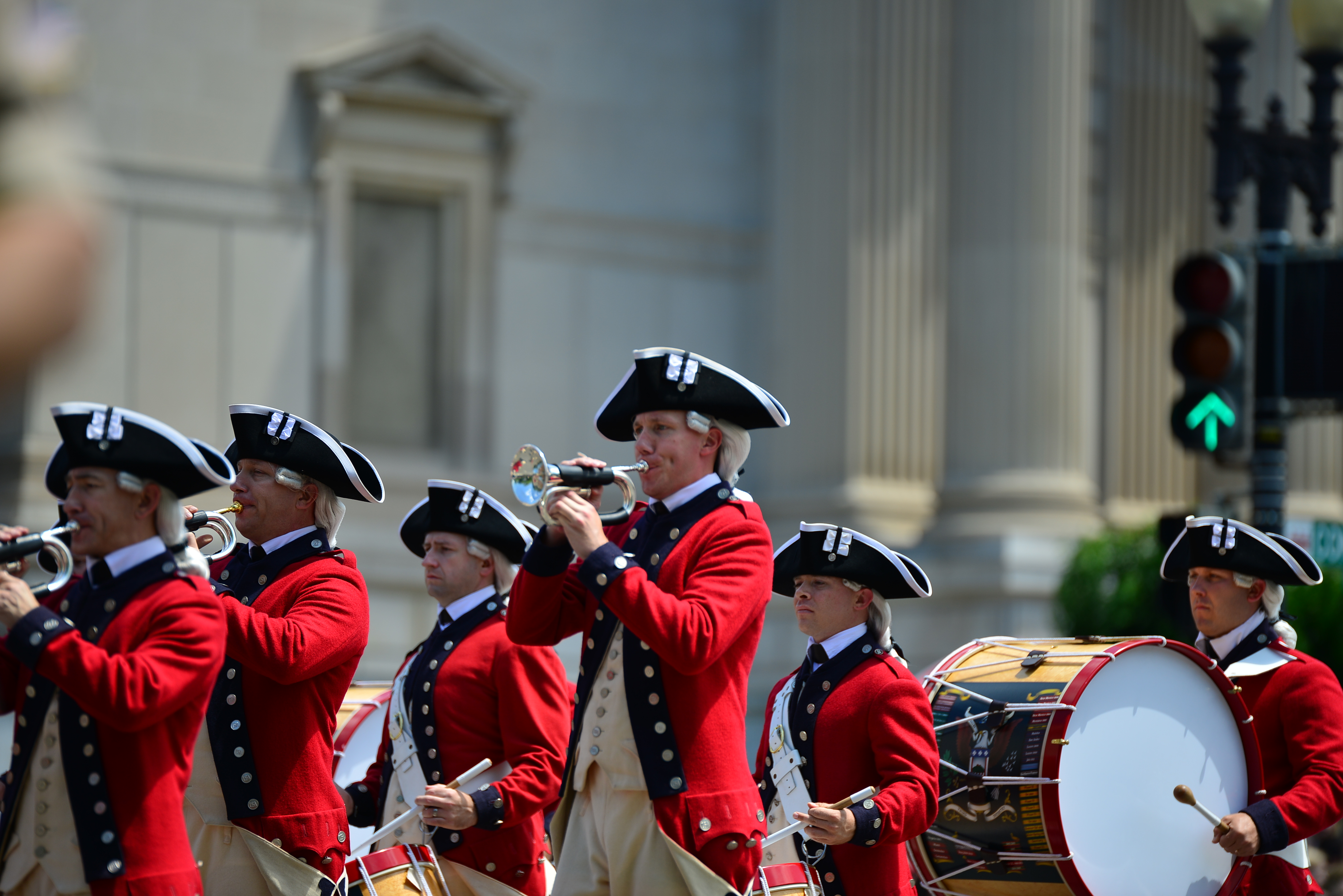 4th of July Independence Day Parade 2014 DC